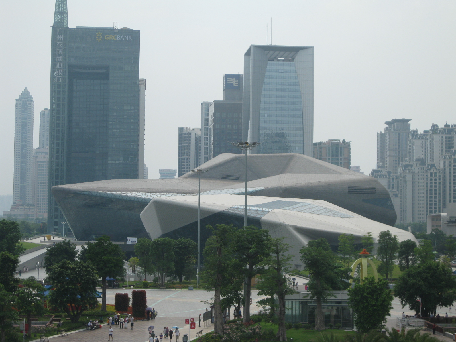 Guangzhou Opera House overview